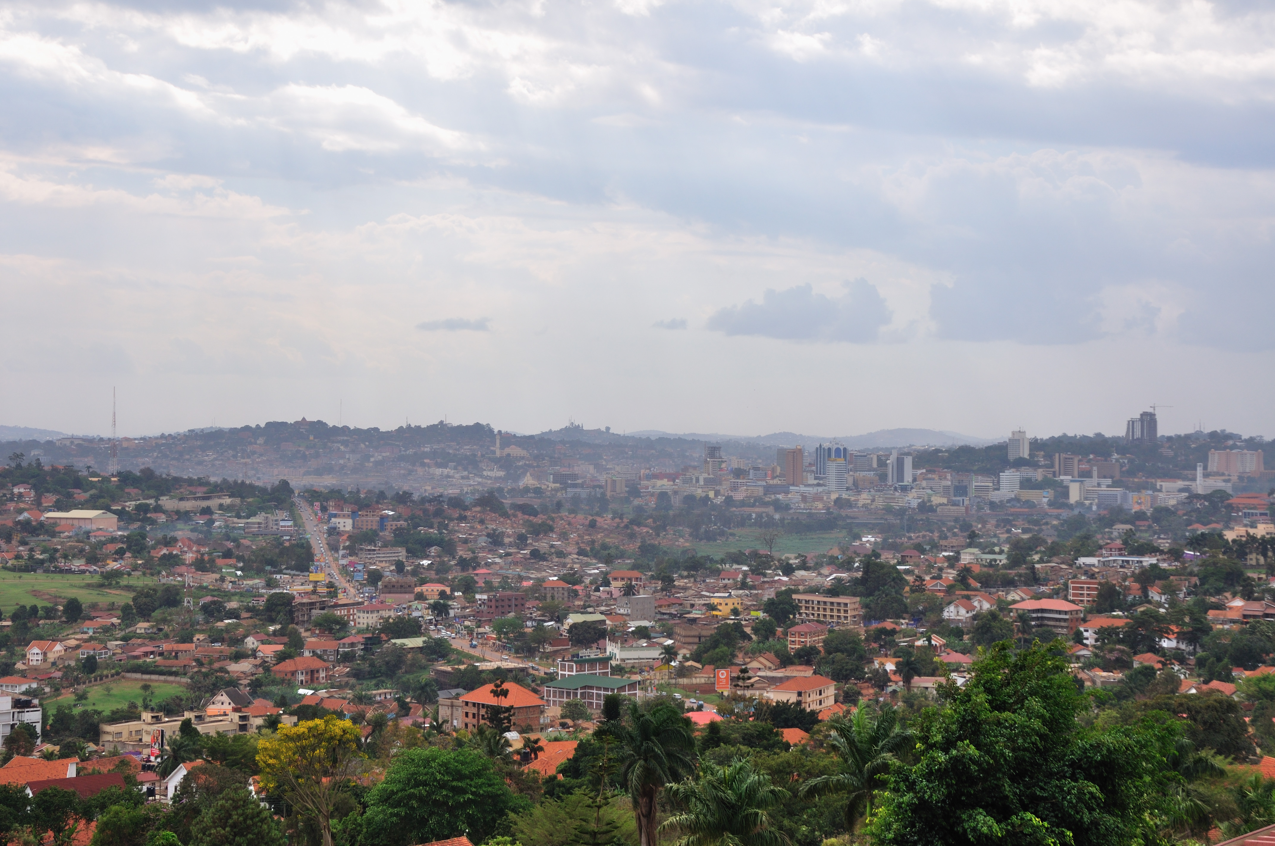 Uganda, View over the city